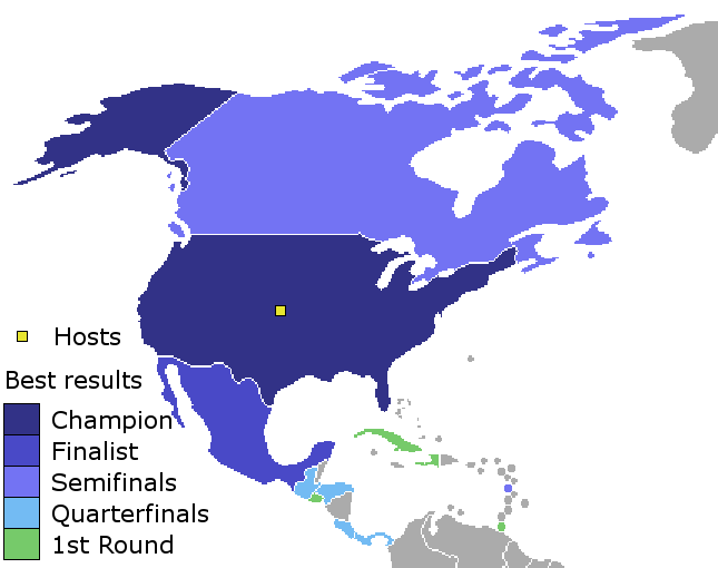 Map of nations taking part in 2007 CONCACAF Gold Cup